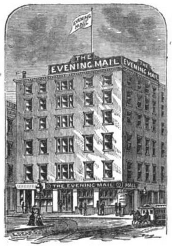 Sketch of the offices of the New York Evening Mail in New York City at 34 Park Row circa 1872. Appears in Aug 15, 1872 issue of "The Weekly Trade Circular", p. 156